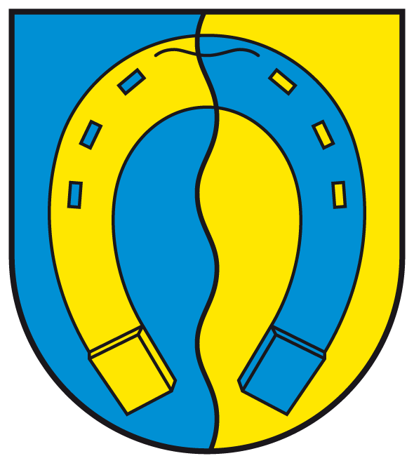 Coat of Arms of Bergfeld